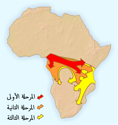 One hypothesis about the origins and spread of the Bantu languages.